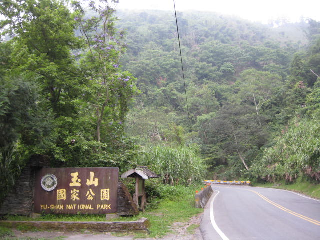 Boundary Tablet of the Yushan National Park is lies on the Provincial Highway No.21 in the county of Nantou,showing a section at approximately 119km,near Dongpu.